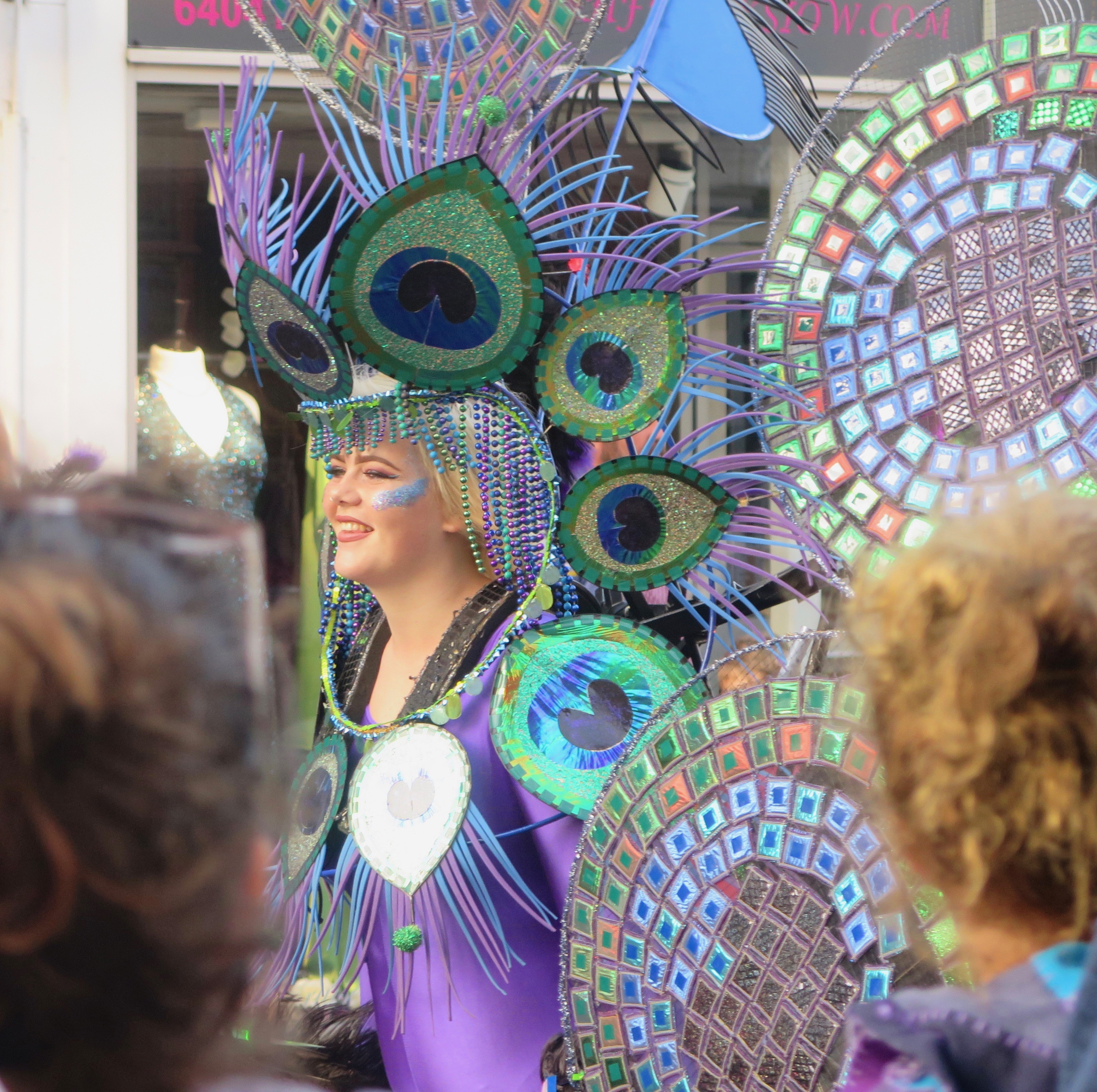 The town's summer carnival draws large crowds to the High Street and surrounding areas.